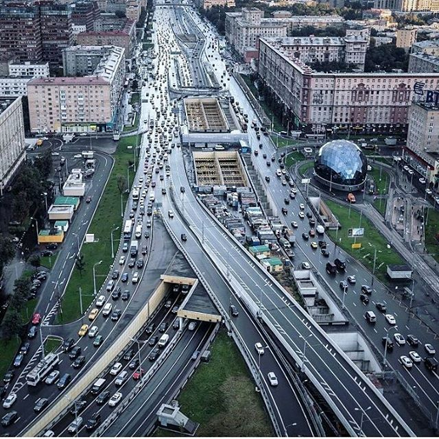 Interchange of Leningradskoye Highway with Volokolamskoe Shosse in Moscow